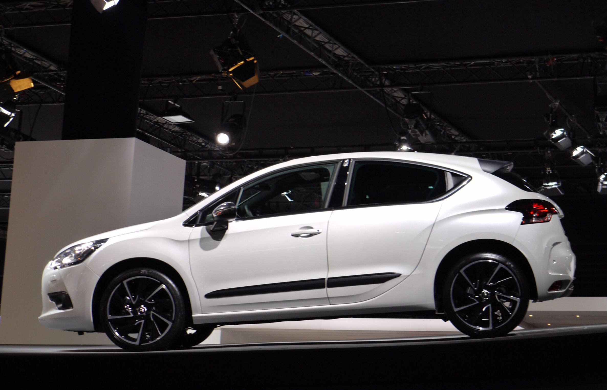 Citroën DS4 - based on the C4 II.